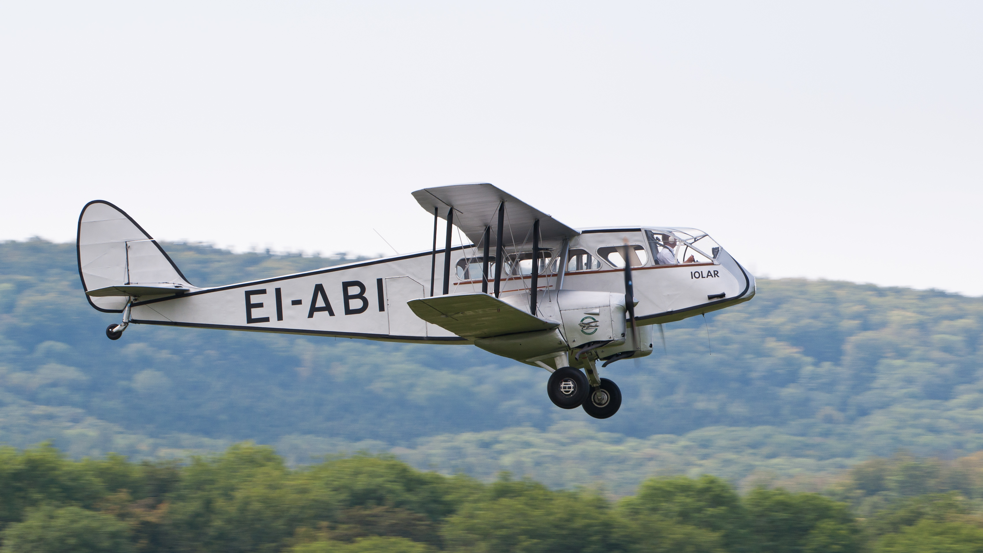 Aer Lingus (Aer Lingus Charitable Foundation) De Havilland DH-84 Dragon 2 Iolar (reg. EI-ABI, cn 6105, built in 1936).